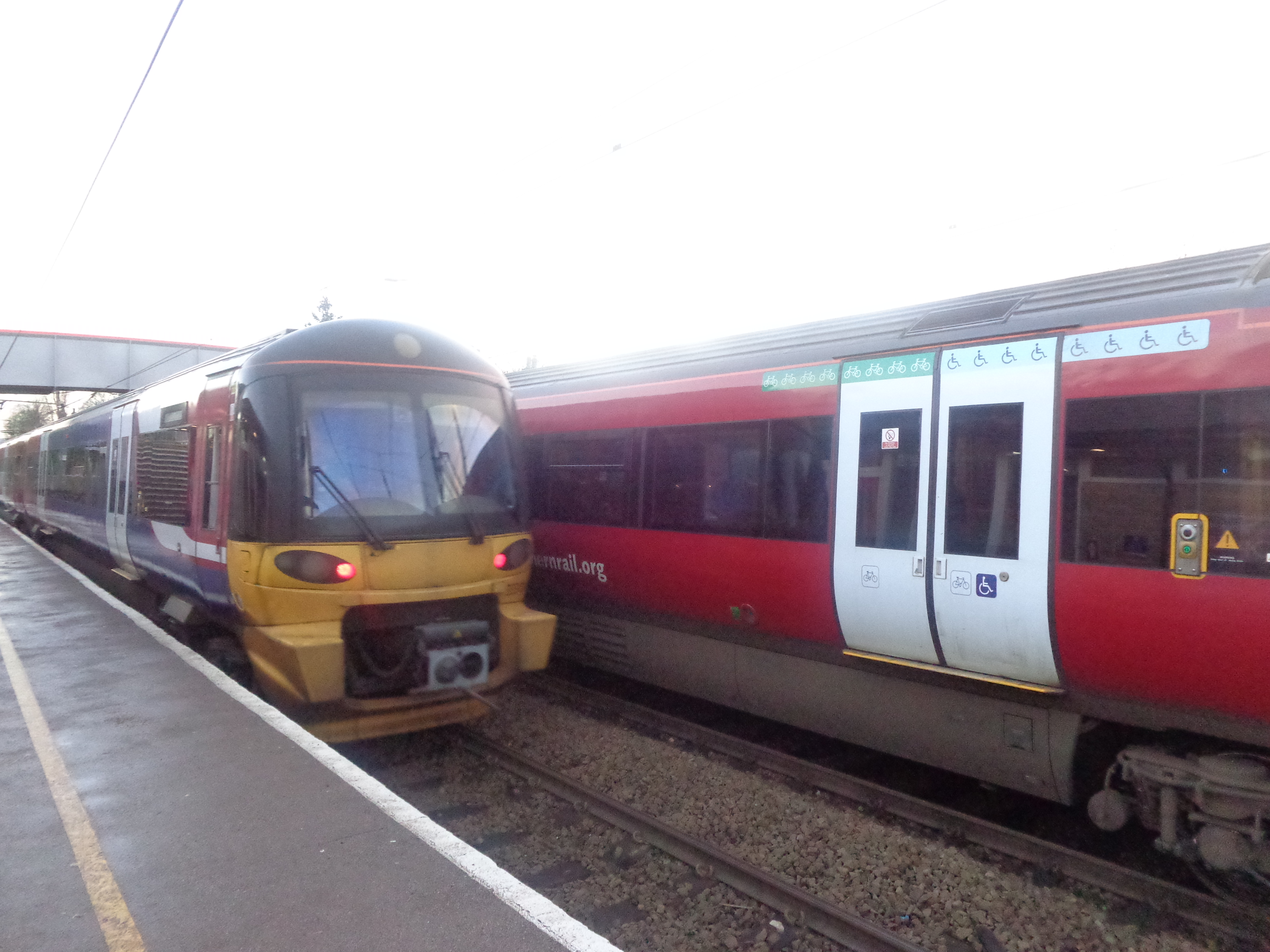 Two British Rail Class 333s at Guiseley railway station in Guiseley, West Yorkshire. Taken on the afternoon of Tuesday the 30th of December 2014.